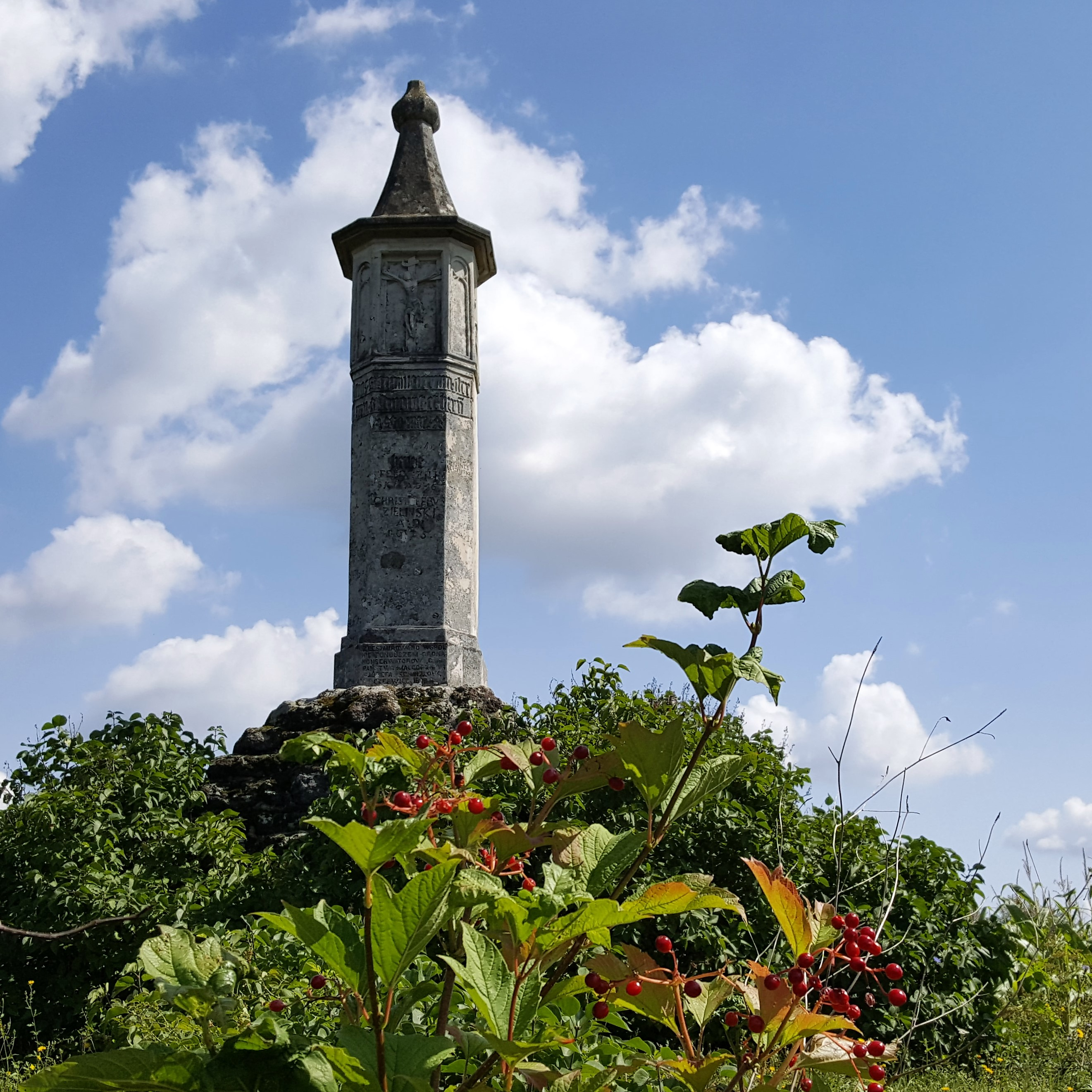 Boundary marker in Biskupice Radlowskie.